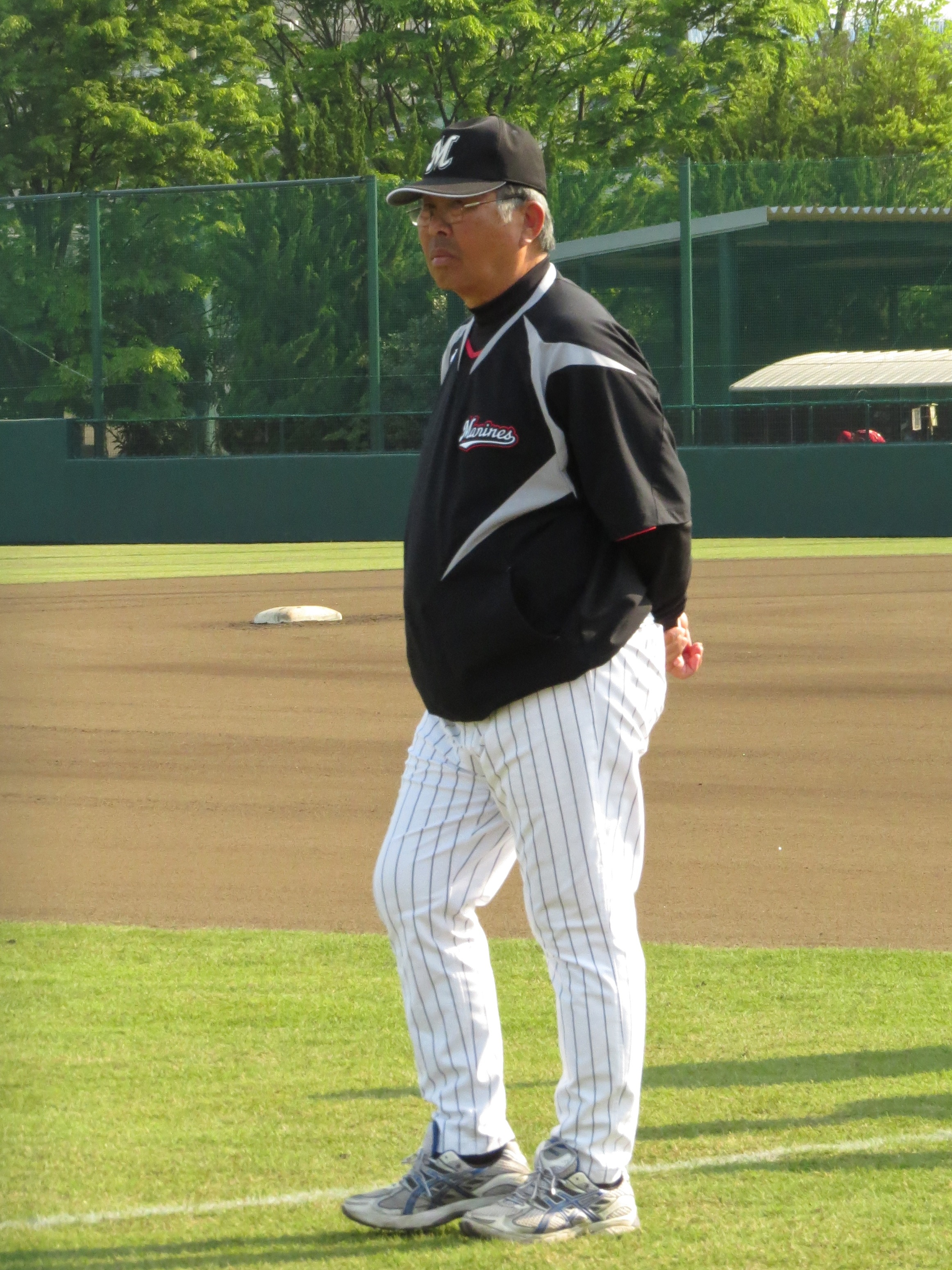 Tadakatsu Kotani, coach of the Chiba Lotte Marines, at Lotte Urawa Baseball Ground.